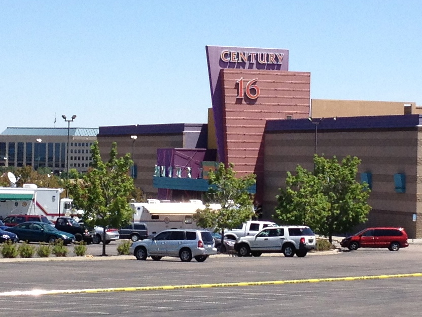 The Century 16 Theater in Aurora, Colorado where the 2012 Aurora shooting took place, photographed the day after the shooting.